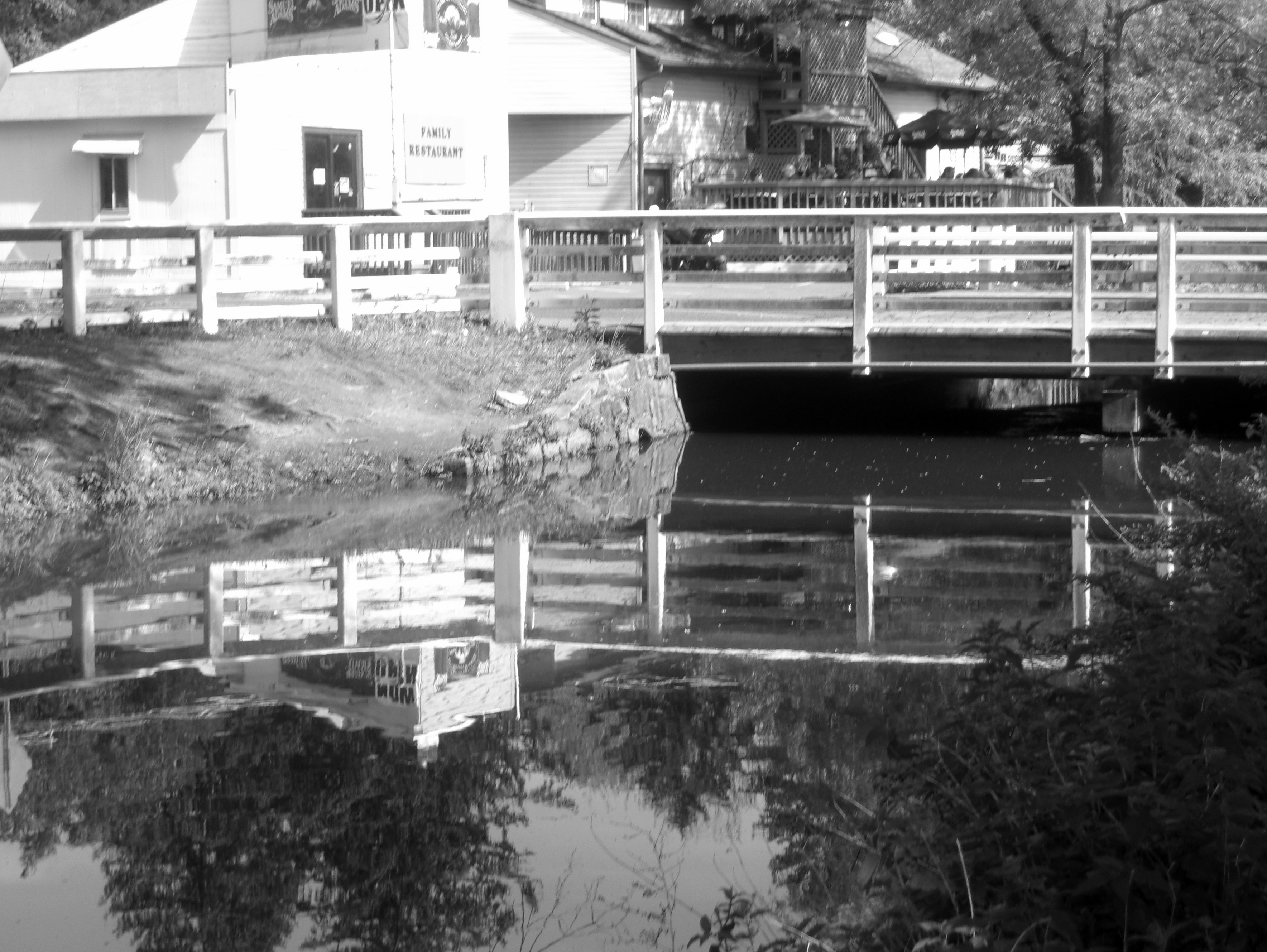 The Delaware and Raritan Canal in Hopewell Township, NJ